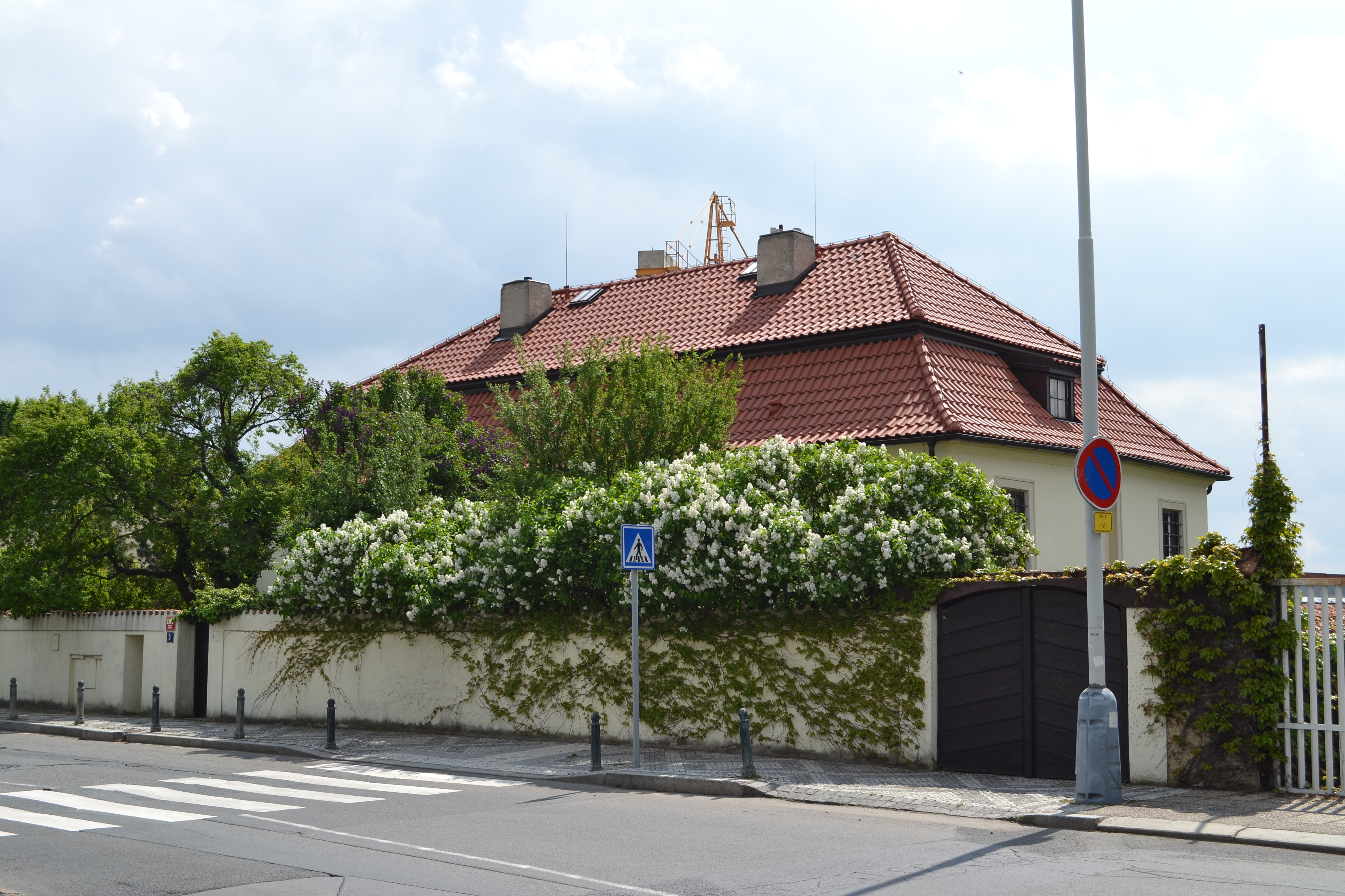 Hybšmanka, Atletická 2368/3, Prague-Břevnov